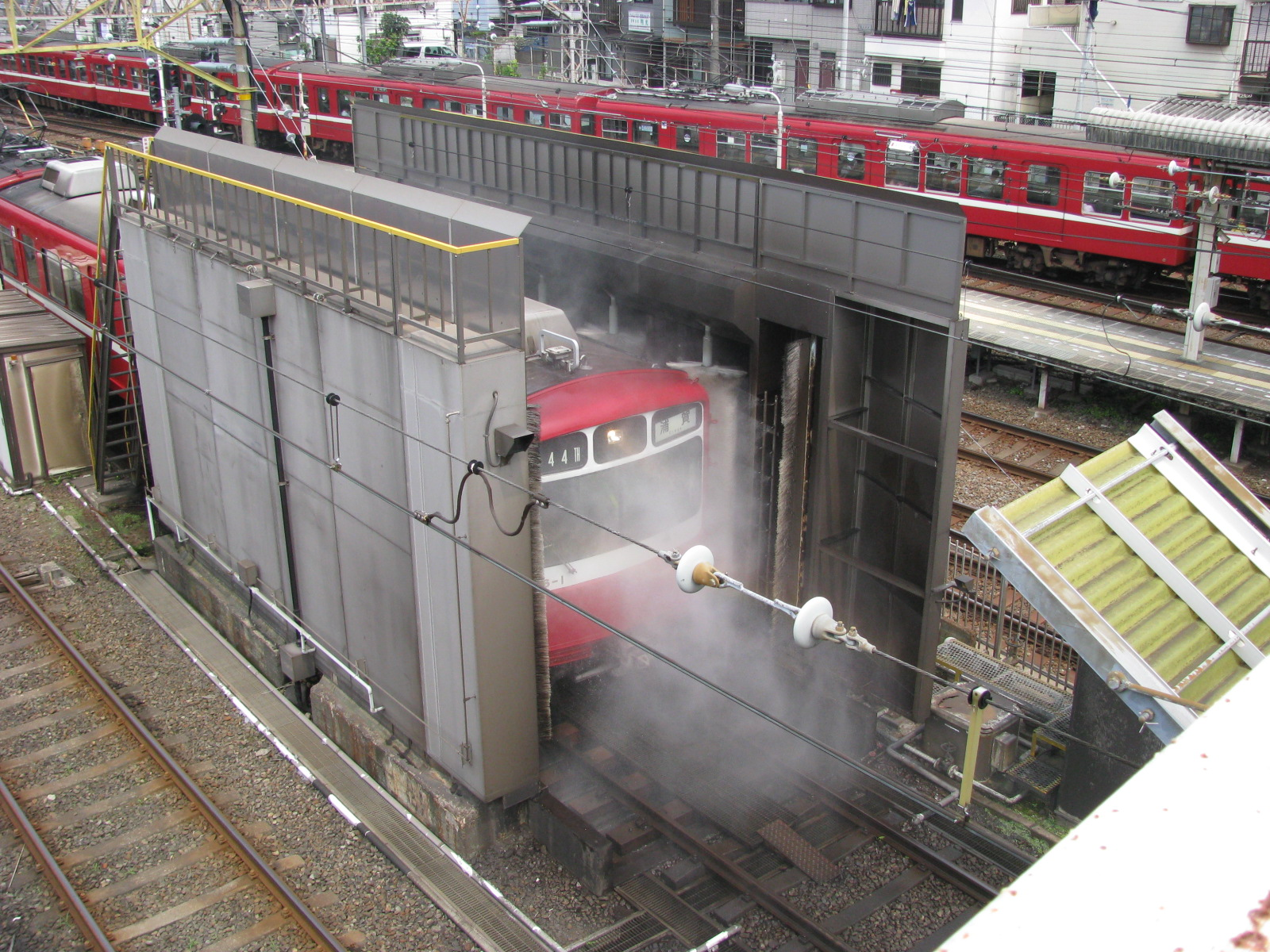 Train washing machine.